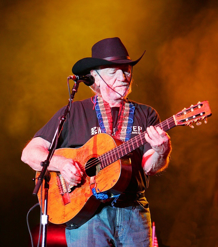 Willie Nelson performing at the Chumash Casino Resort in Santa Ynez, California.